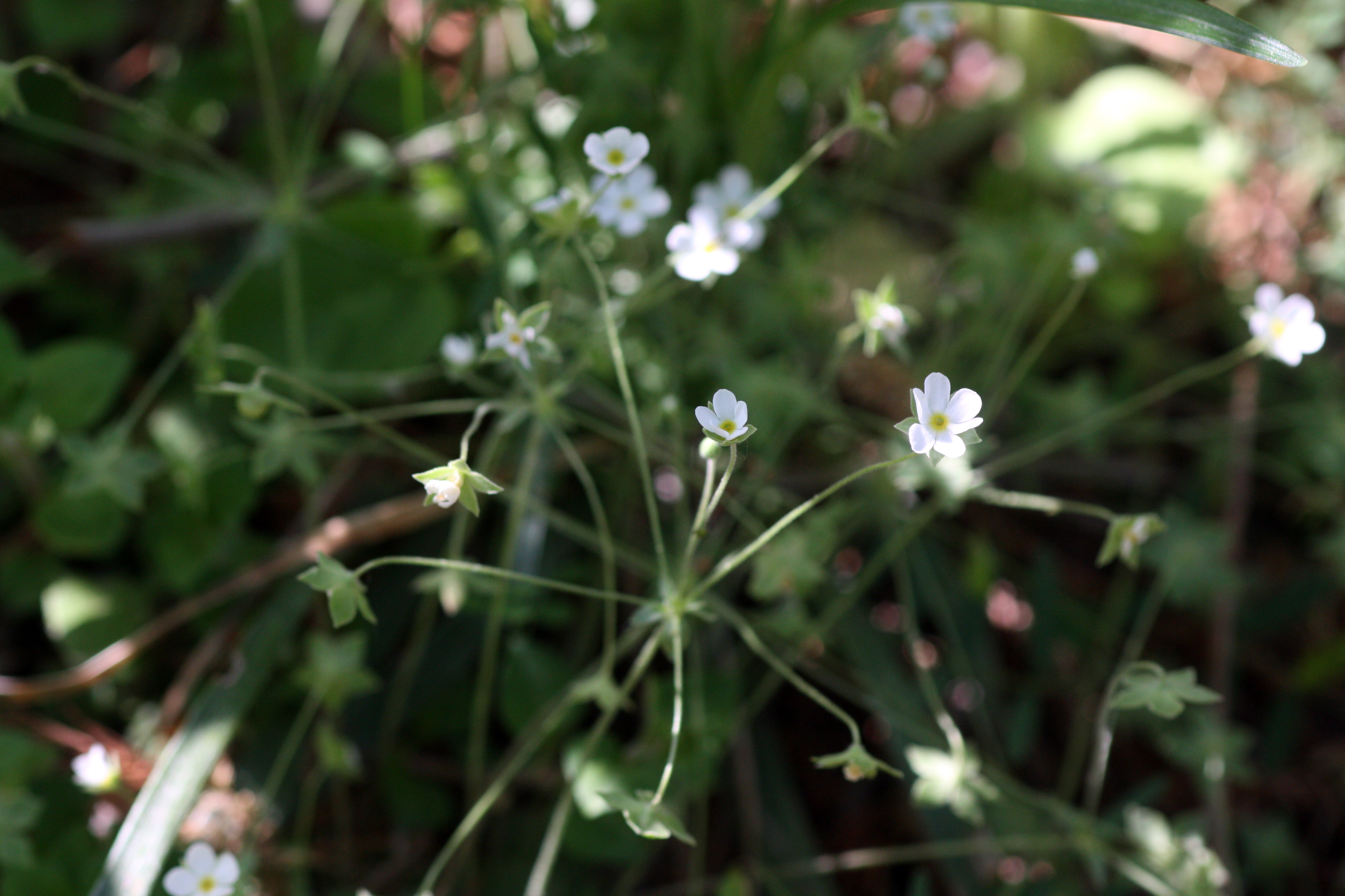 Androsace umbellata